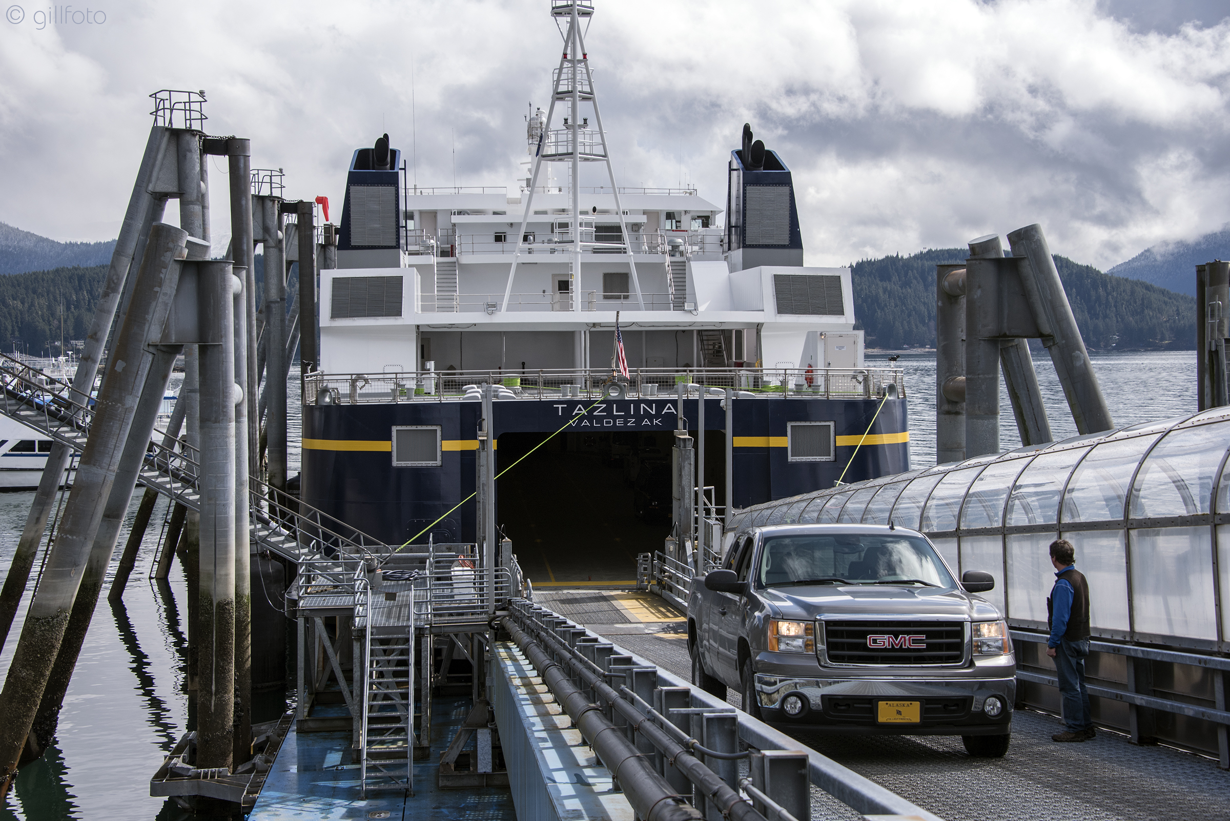 Stern deck ramp of the Alaska Class ferry MV Tazlina